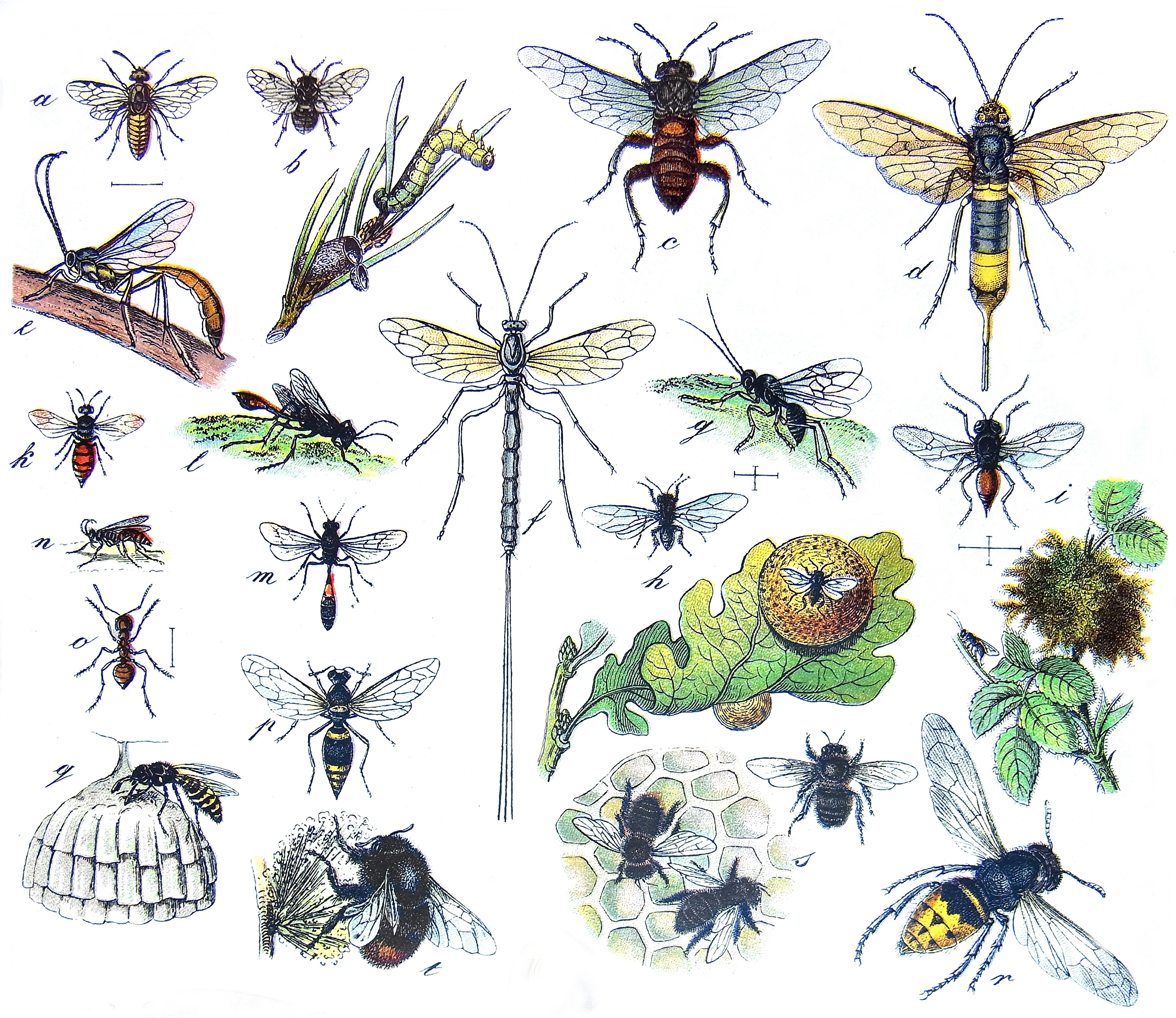 Bearbeiteter Ausschnitt Hautflügler der Tafel XXVa) Athalia rosae b) Diprion pini c) Cimbex femoratus d) Urocerus gigas e) Therion circumflexum f) Ephialtes manifestator g) Cotesia glomerata h) Cynips quercusfolii i) Diplolepis rosae k) Chrysis ignita l) Ammophila sabulosa m) Trypoxylon figulus n) Anoplius viaticus o) Formica rufa p) Ancistrocerus parietum q) Vespula vulgaris r) Vespa crabro s) Apis mellifera t) Bombus lapidarius